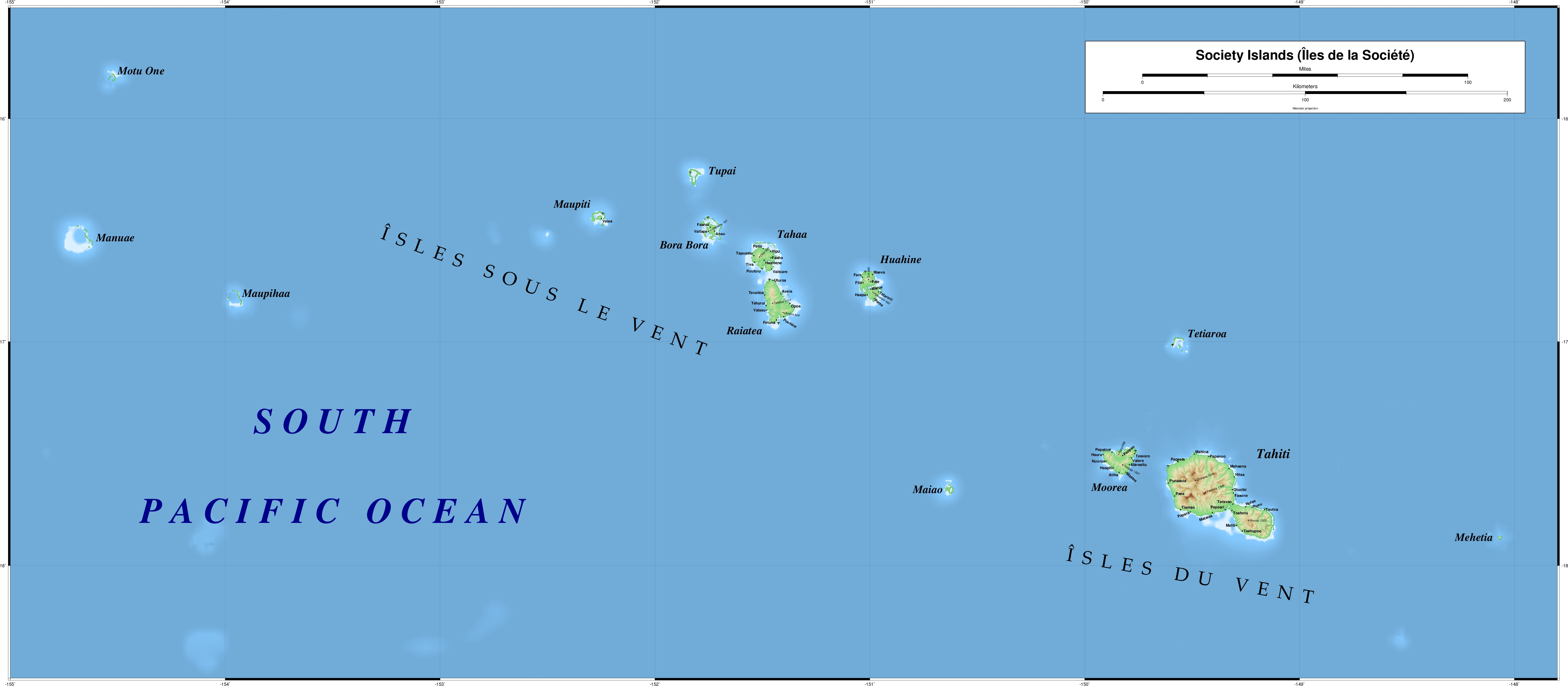 Society Islands (preliminary map)